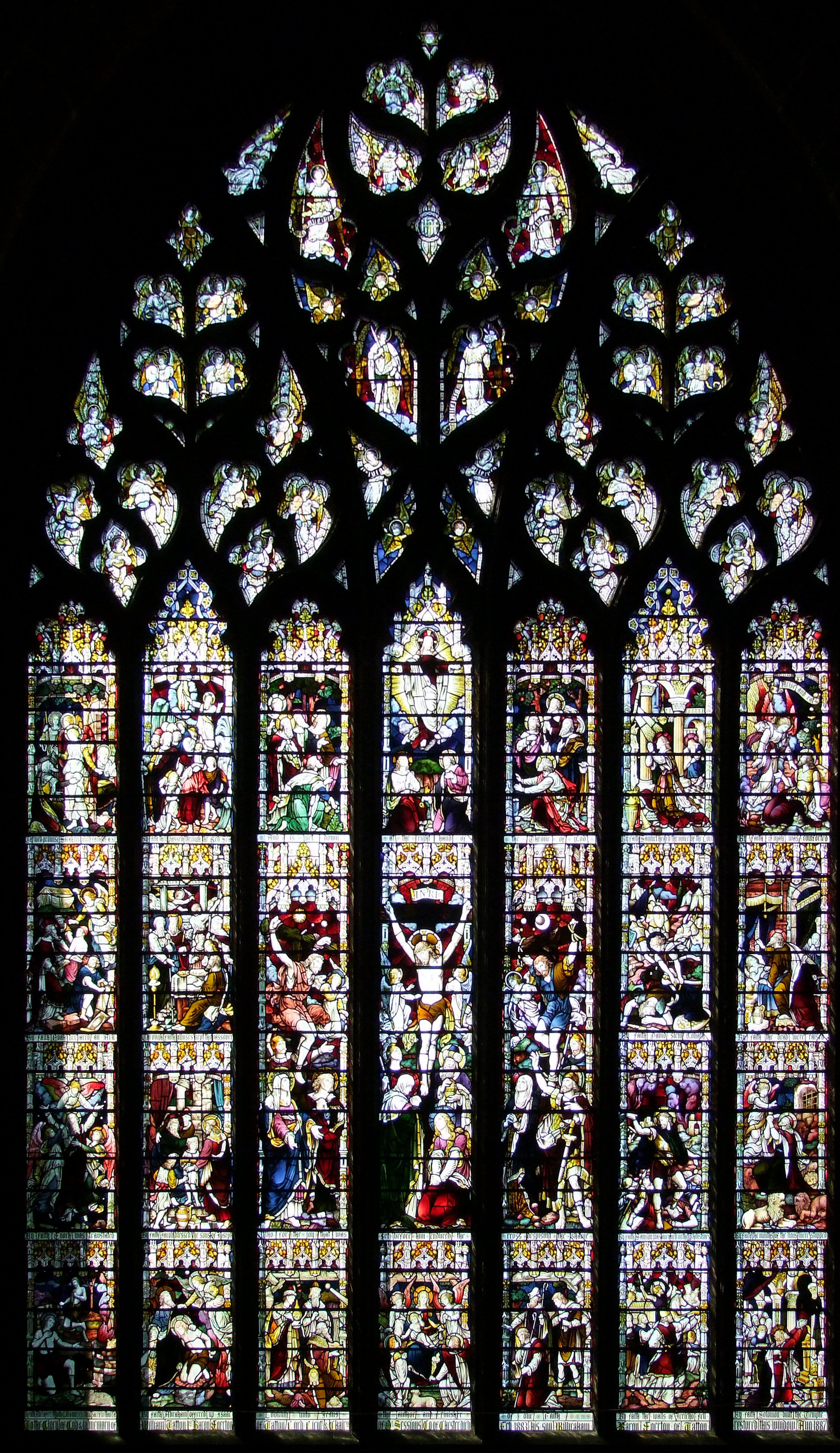 This window is dedicated to William Tatton Egerton and Wilbraham Tatton Egerton which can be seen in Chester Cathedral